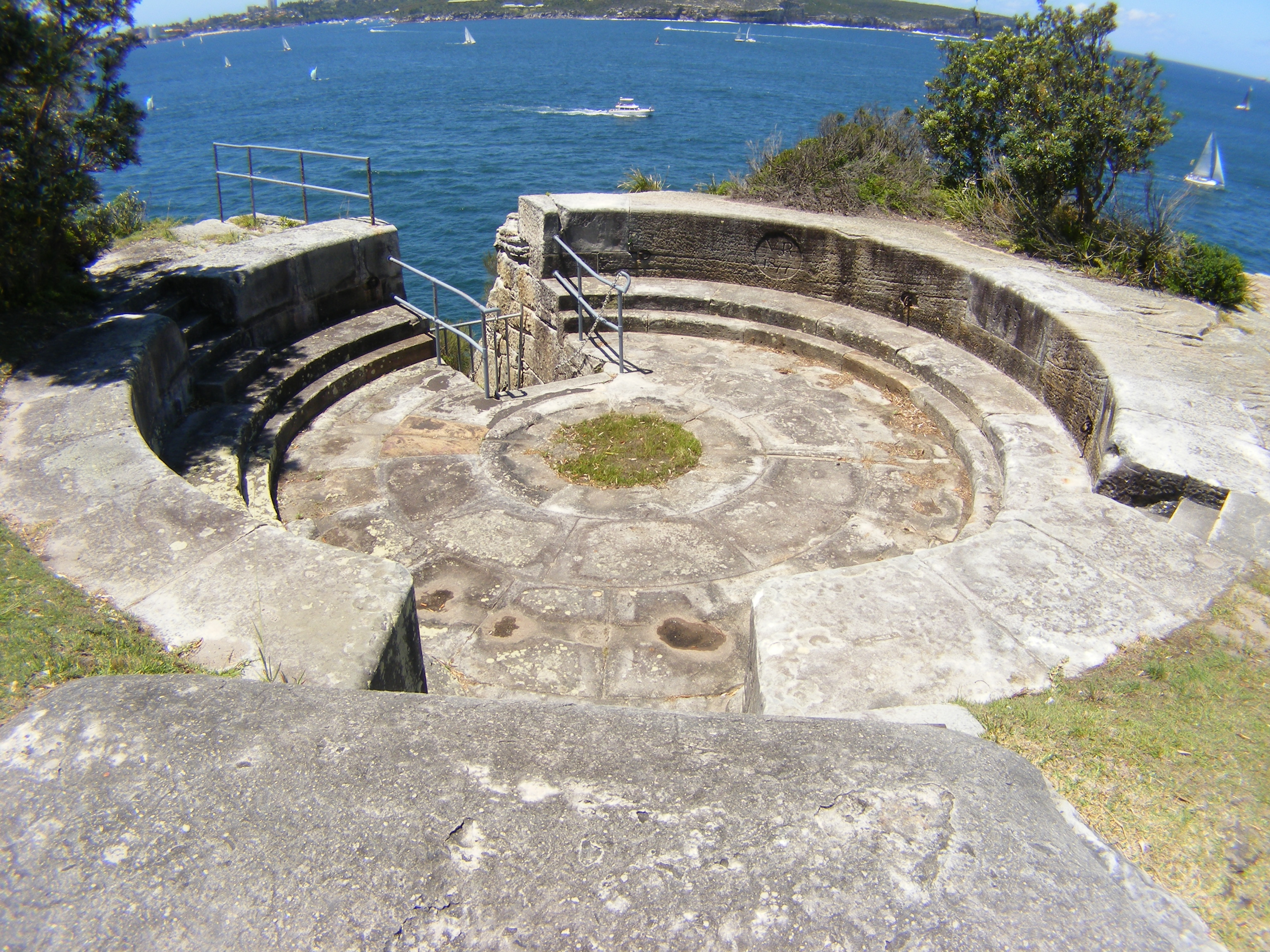 Middle Head Fortifications